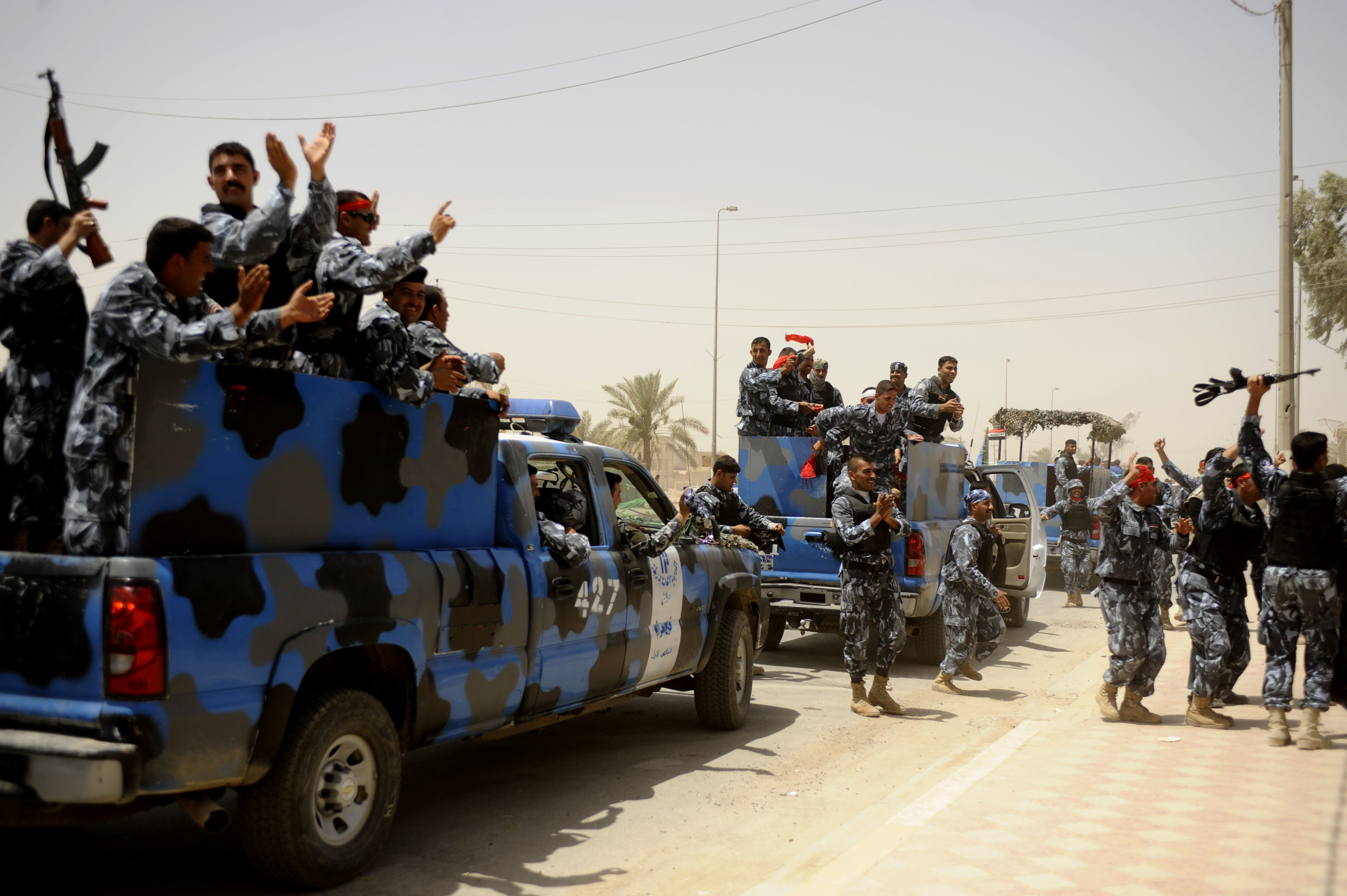 Iraqi police celebrate in the streets after a parade in recognition of Baqouba Sovereignty Day" in Diyala province, Iraq, June 29. The day was in celebration of the local government upholding security in the city without support from coalition forces. Joint Combat Camera Center Iraq Photo by Staff Sgt. Ali E. Flisek Date: 06.29.2009 Related Images